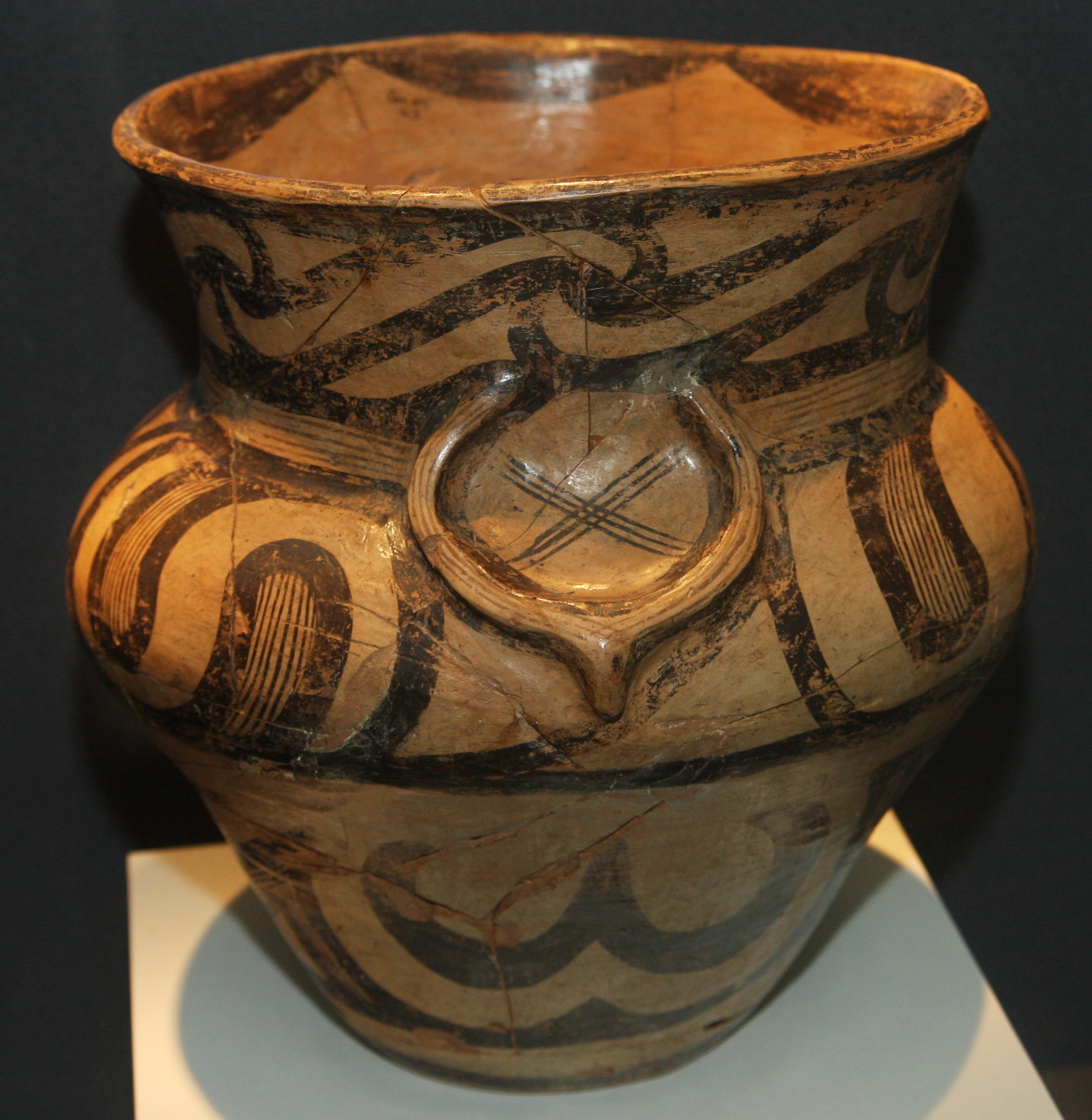 Representation of bull horns and a cross in Cucuteni culture pottery. Piatra Neamt Museum.